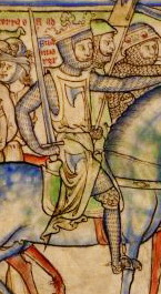 Sweyn Forkbeard, King of the Danish. (Cambridge University Library, Ee.3.59, fol. 4r)